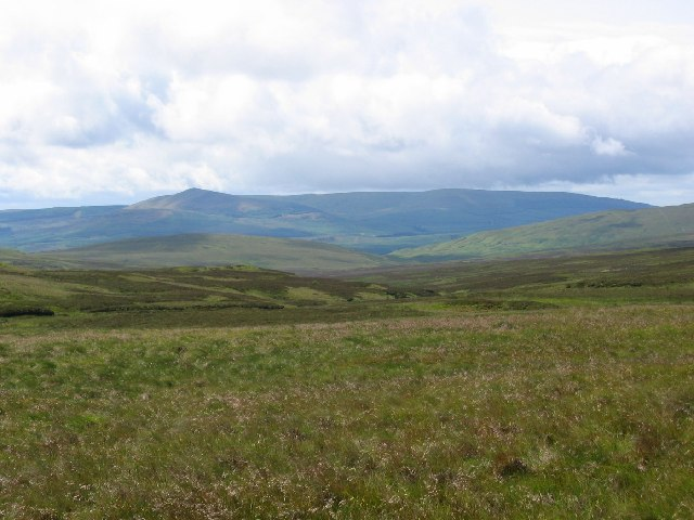 Gargunnock and Campsie Fells. The vast basalt plateau north of Glasgow goes under many local names. Here the view is to Meikle Bin in the Campsie Fells from east of Caerletheran in the Gargunnock Hills. The hills form a scarp on their southern and northern edges, but dip gently towards Fintry in the centre. This dip slope is mostly covered in bogland giving tough going. The drained scarp edges however are very pleasant to walk along.